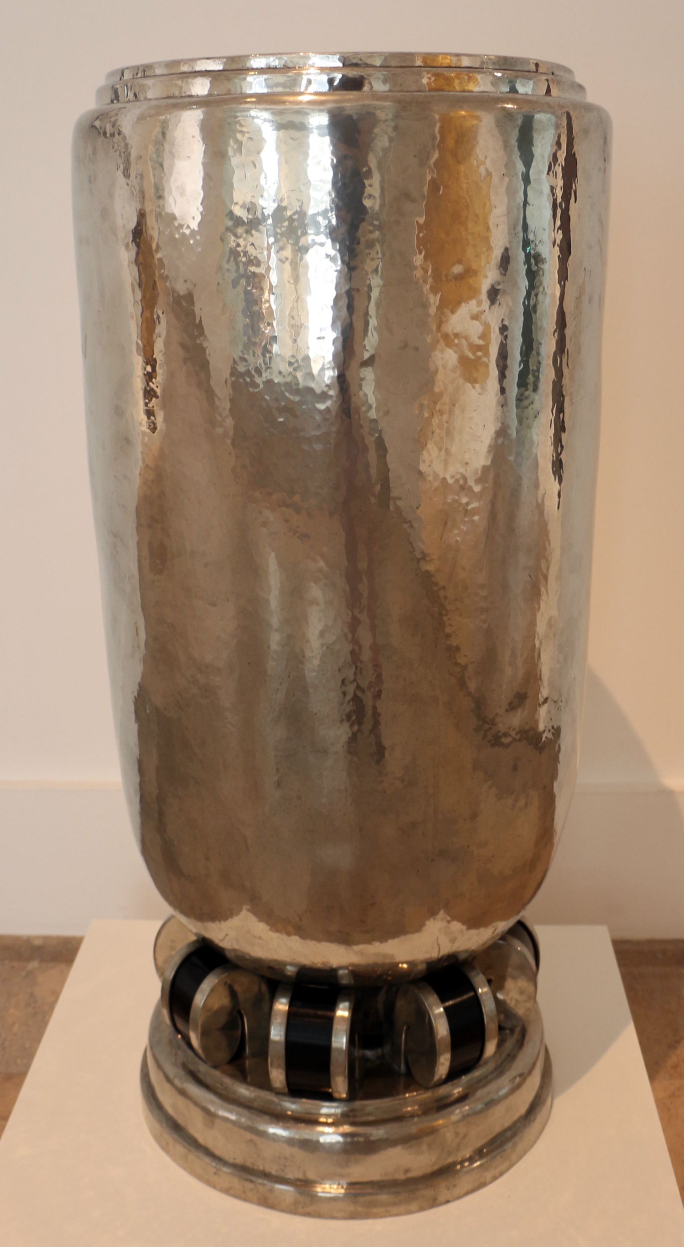 Collections of the Musée d'Art Moderne de la Ville de Paris